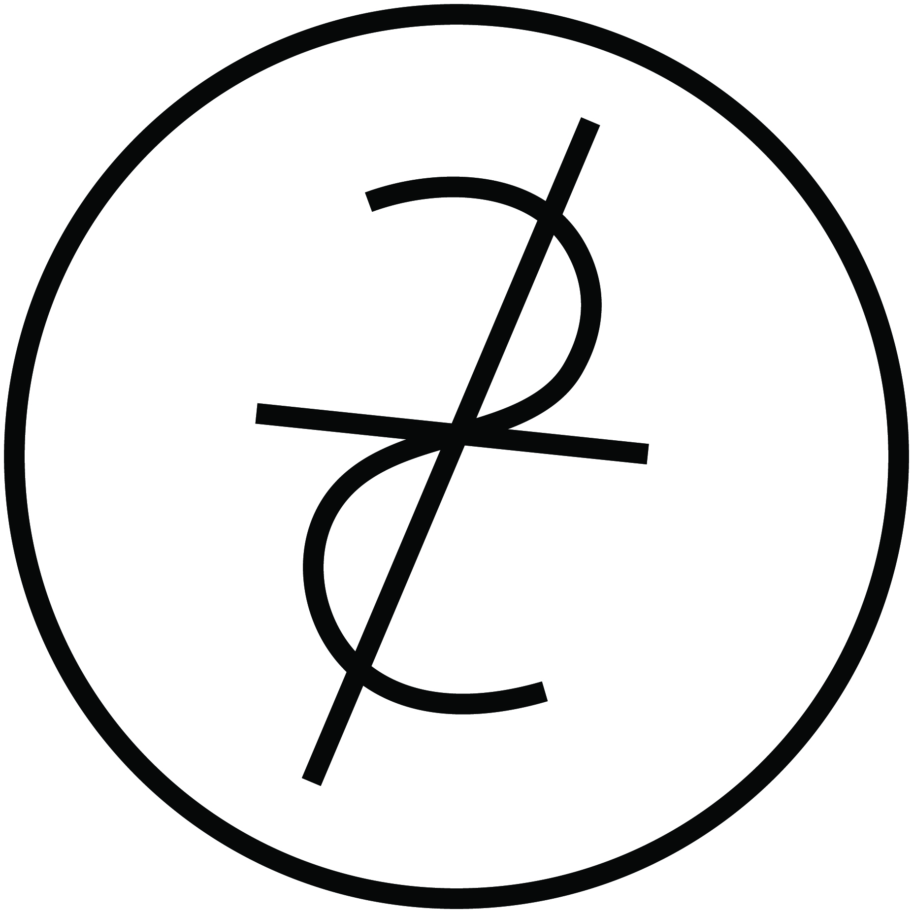 Logo of Institutet